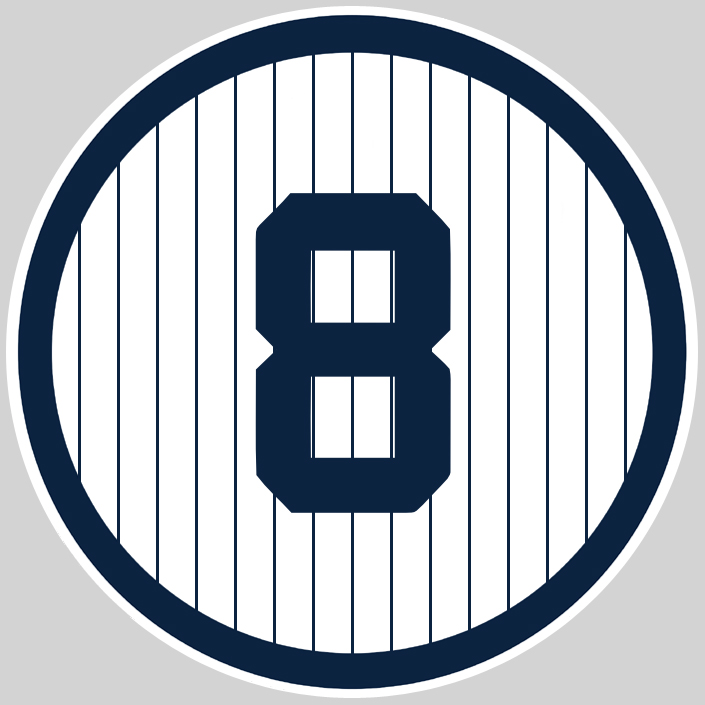 Image represents the current version of Bill Dickey's No. 8 seen in Monument Park in Yankee Stadium